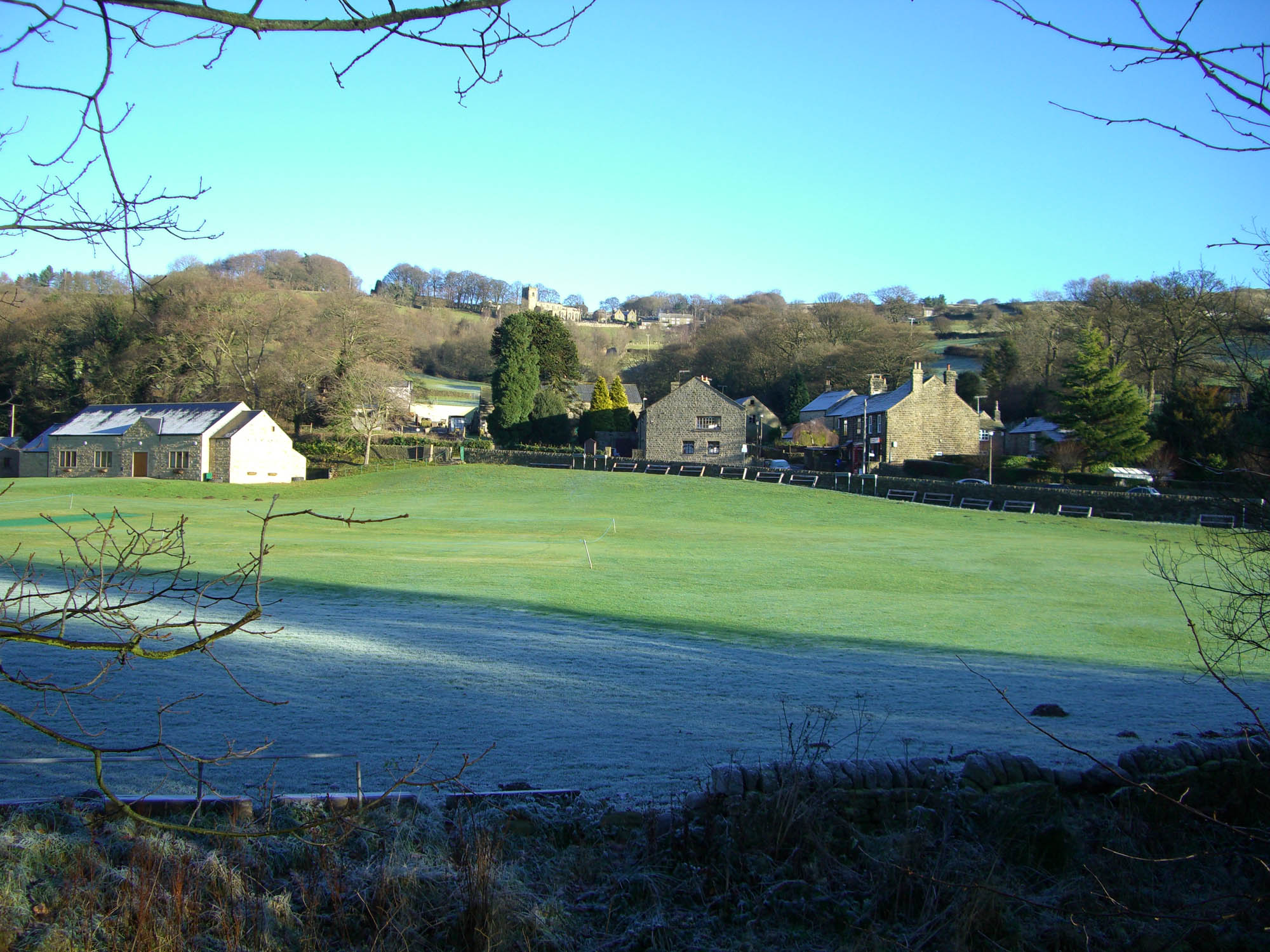 The centre of Low Bradfield, Sheffield, South Yorkshire